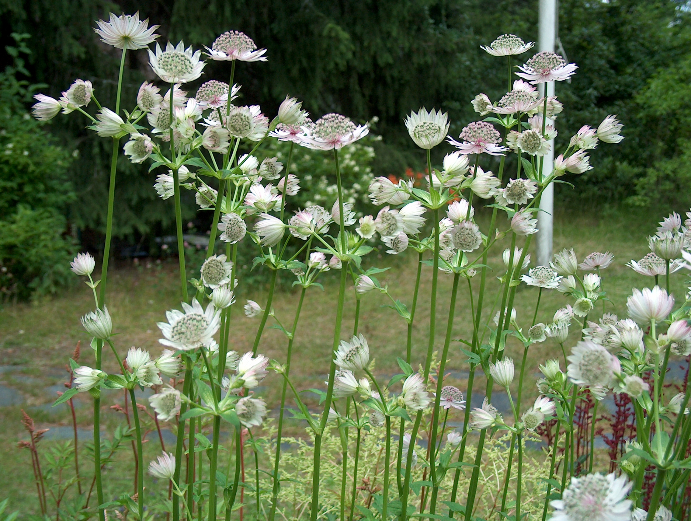 Great Masterwort - Astrantia major in Helsinki, Finland